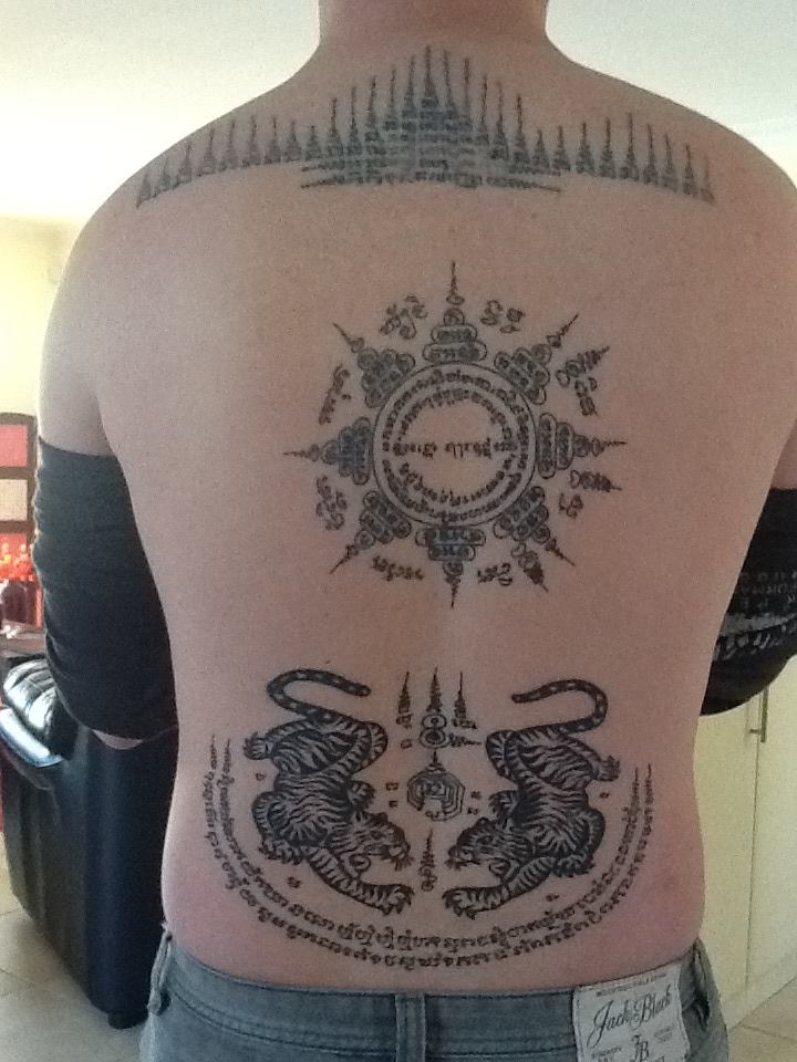 sak yant performed in thailand by ajarn nakhon pathom, bottom tattoo by Jirst tattoo pattaya and middle tattoo apple ink pattaya